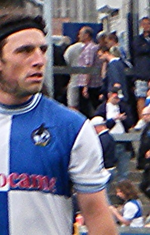 John-Joe O'Toole. Image cropped from original at flickr.